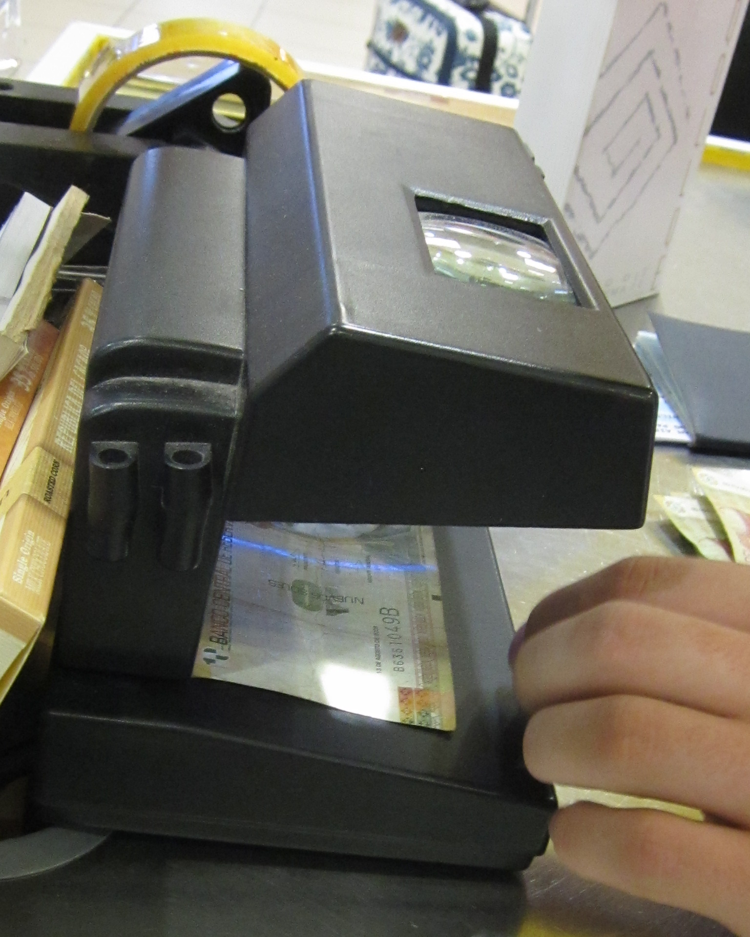 Currency inspection machine at Lima airport.